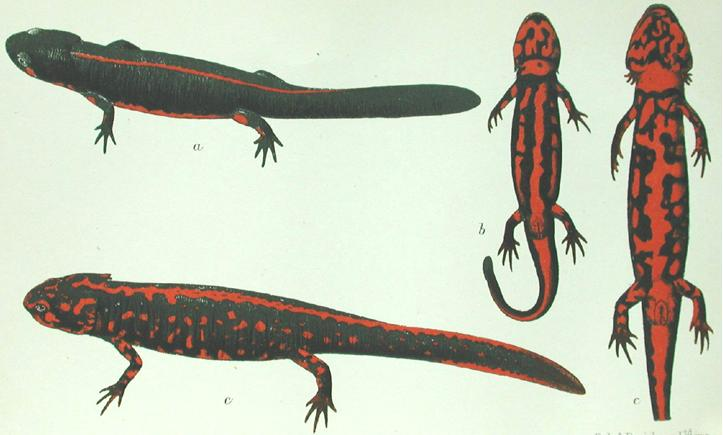 Male and female Hypselotriton wolterstorffi (sin.:Cynops wolterstorffi), illustration from the original Boulanger description of the species.